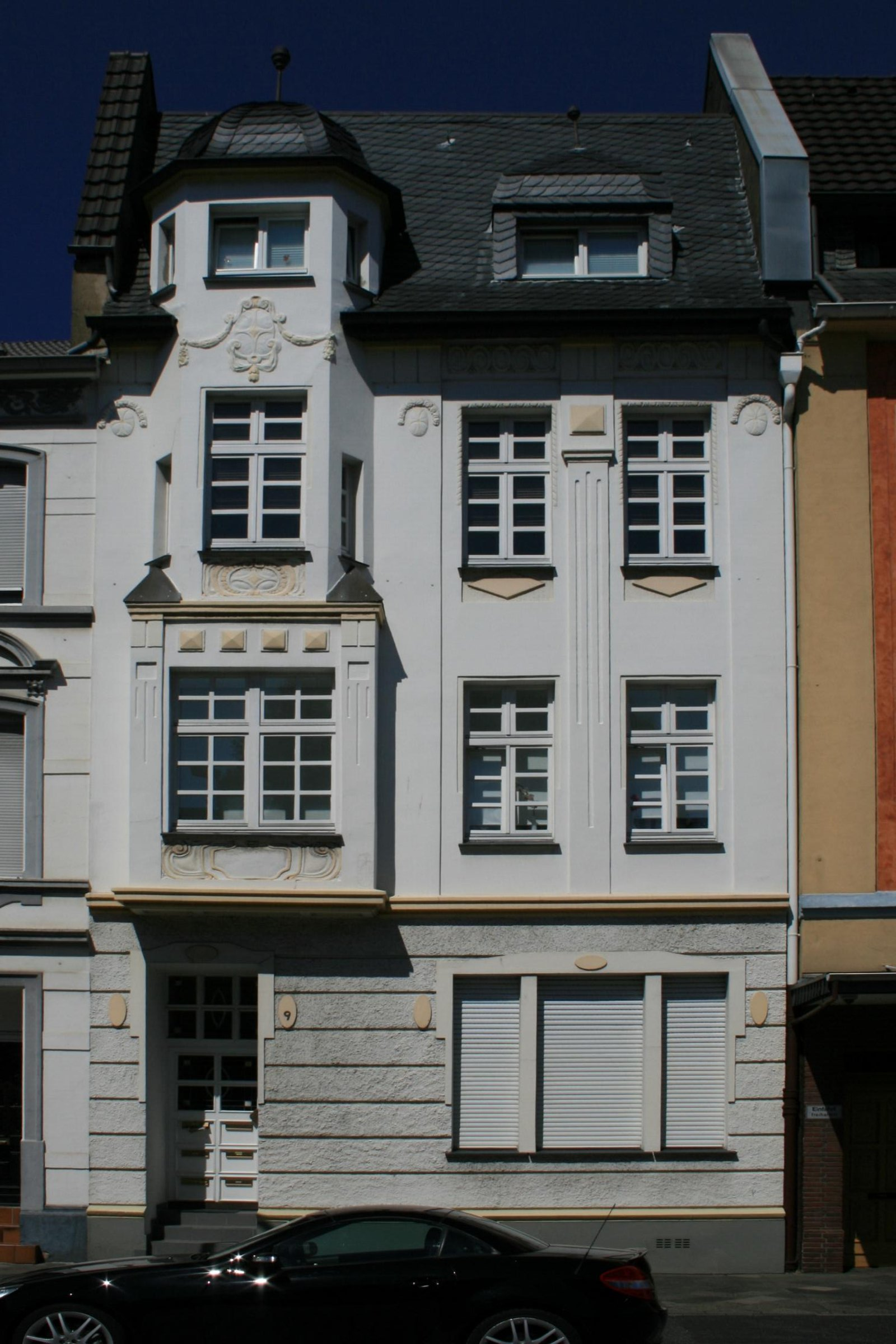 Cultural heritage monument No. K 039 in Mönchengladbach